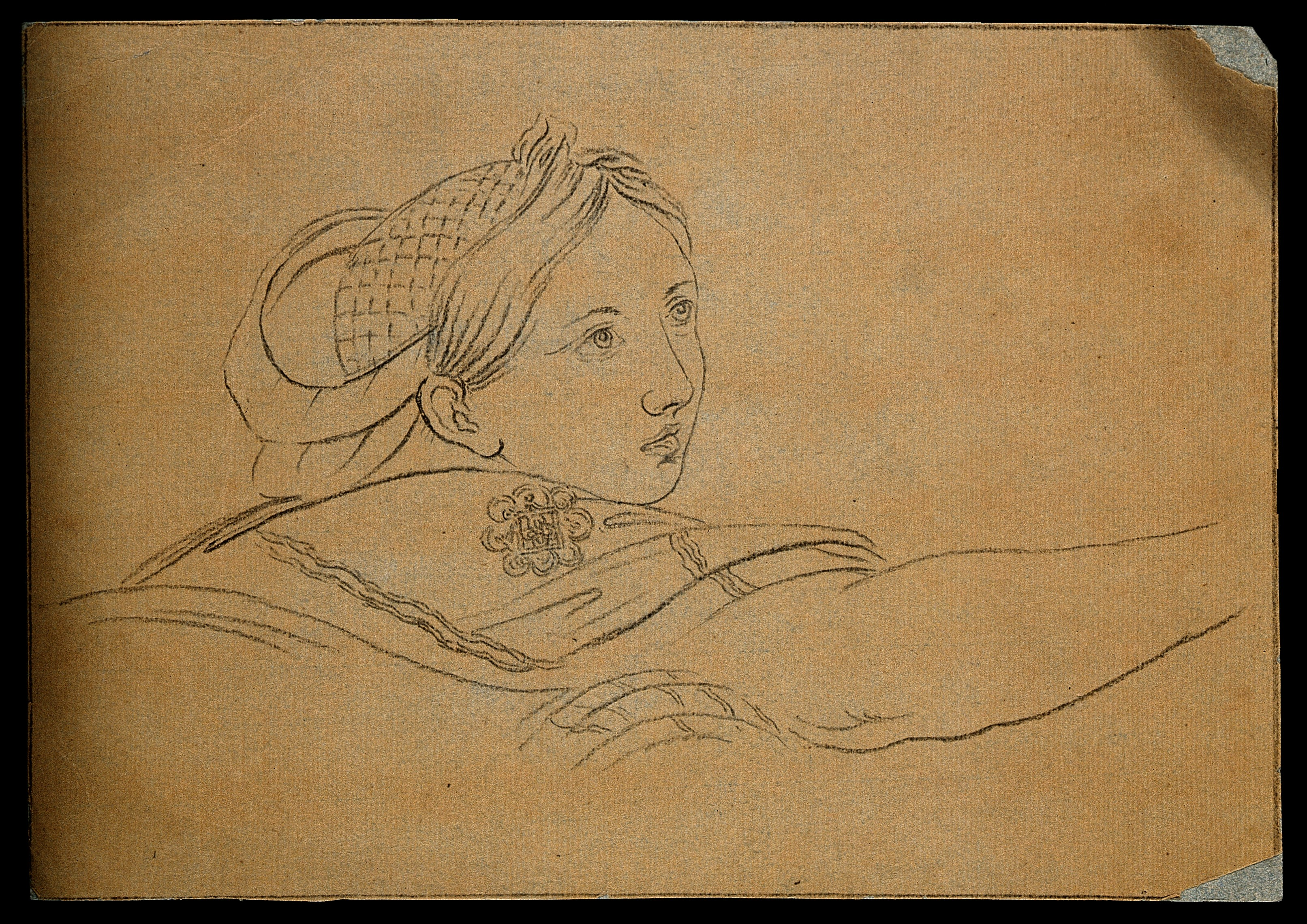 A woman expressing attention, desire and hope. Drawing, c. 1788, after Raphael. Iconographic Collections Keywords: 1788; desire; Attention; pathognomy; raphael; Raphael; Drawings; Johann Caspar Lavater; Thomas Holloway; EXPRESSION; DRAWING; HOPE